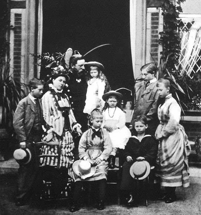 Frederick III, German Emperor with his wife and their children